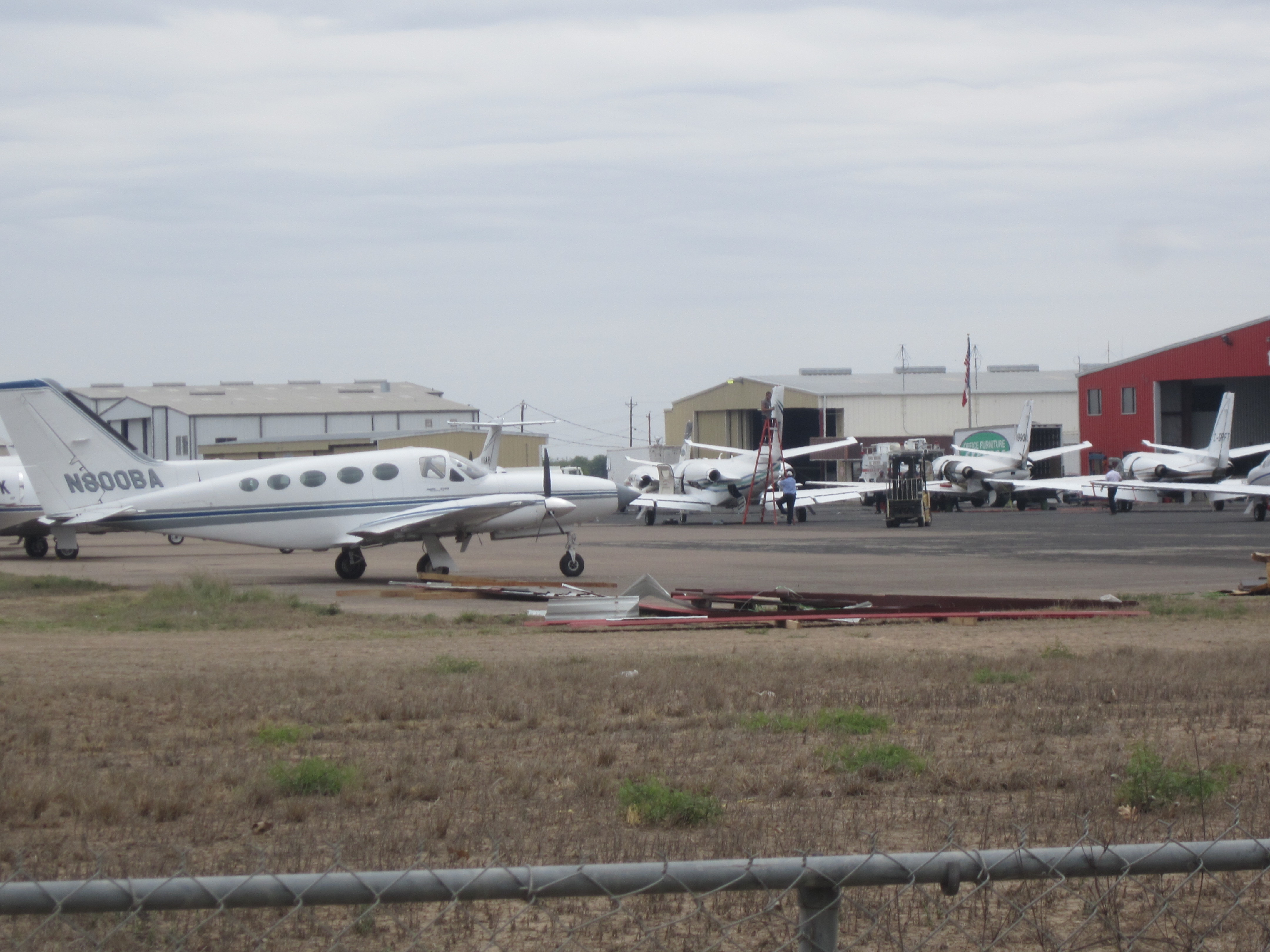 I took photo with Canon camera in Uvalde, TX.